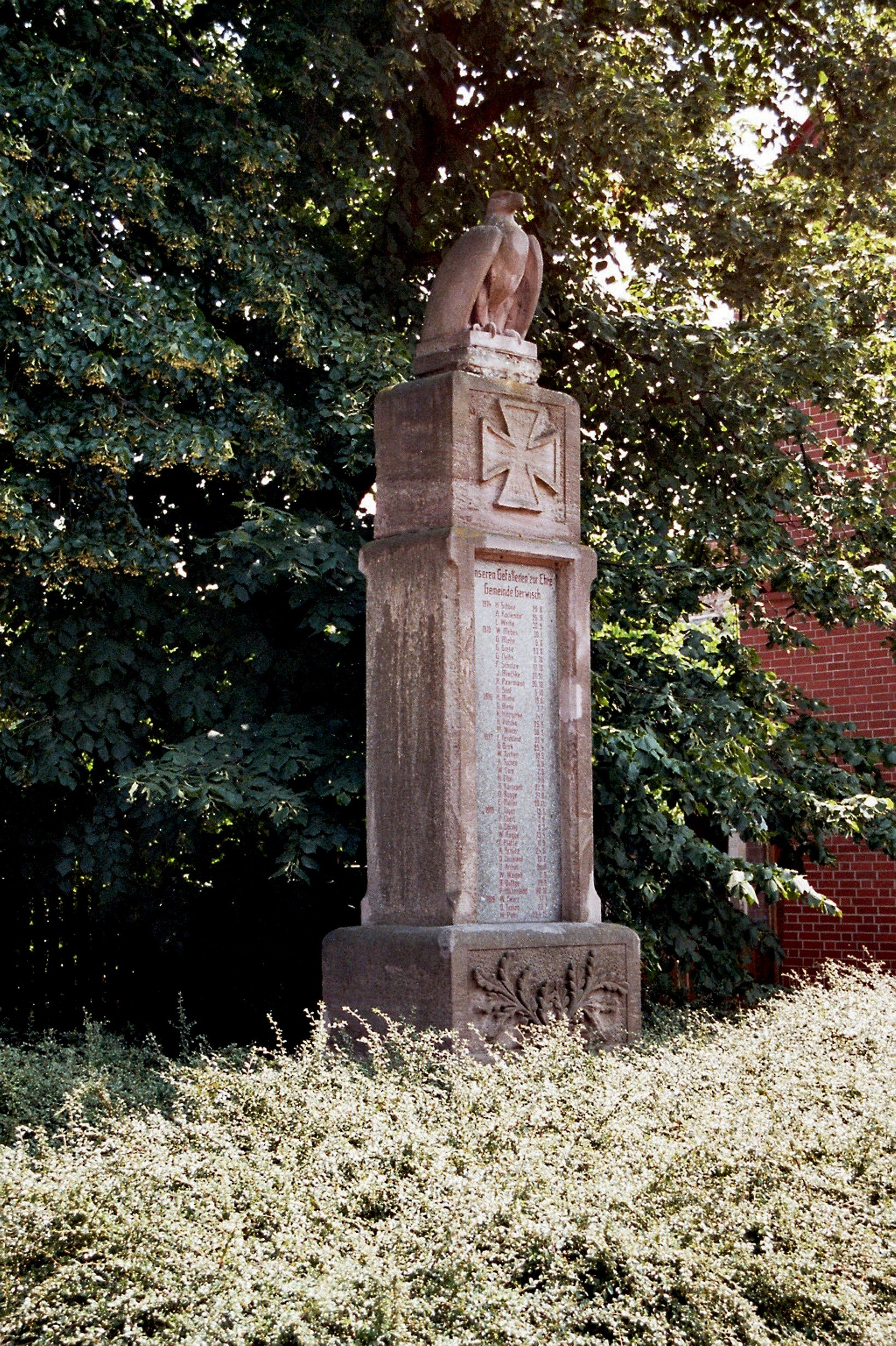 Gerwisch (Biederitz), the war memorial This is a photograph of an architectural monument. 71268